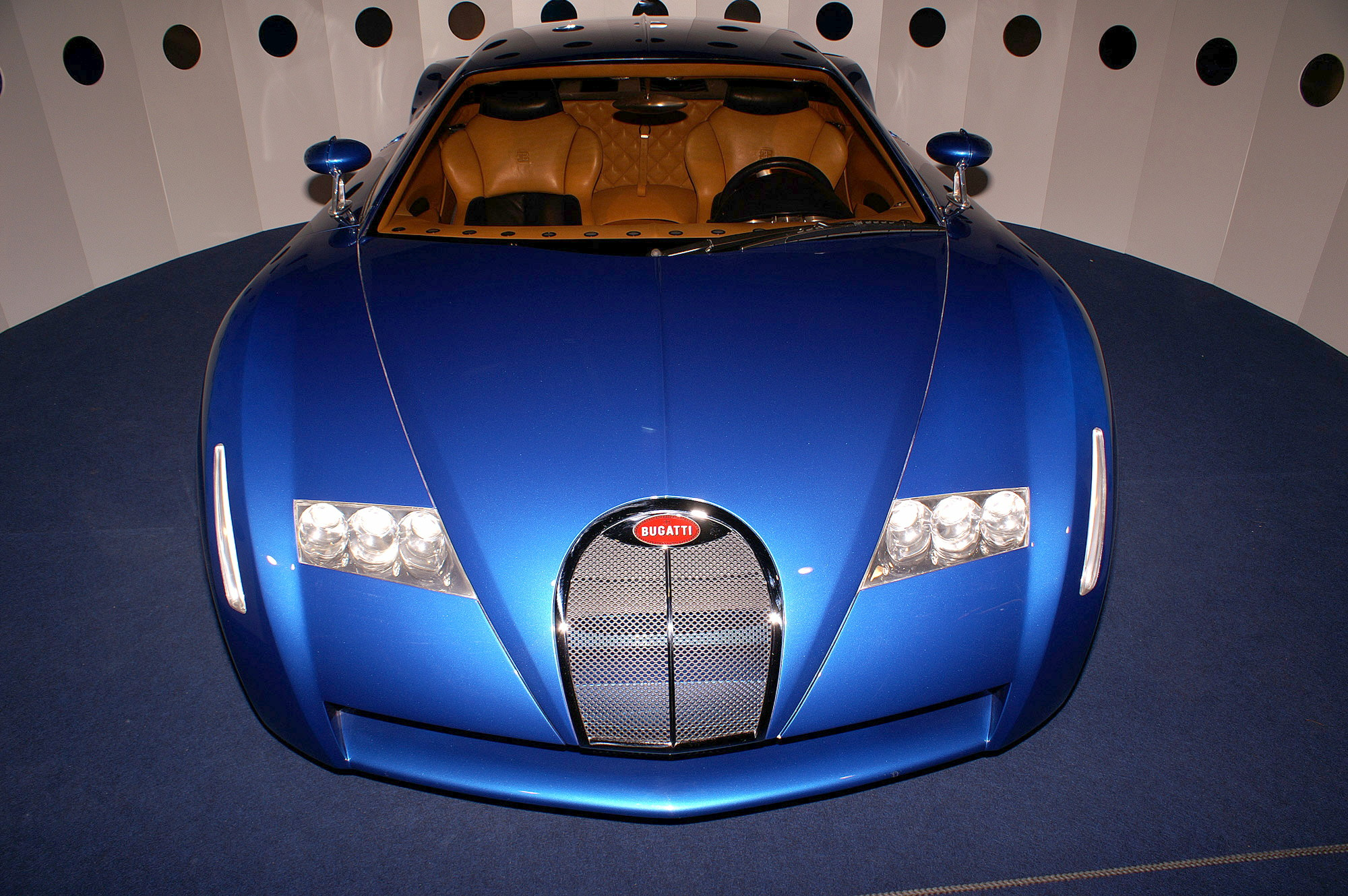 Bugatti 18/3 Chiron as it currently sits.